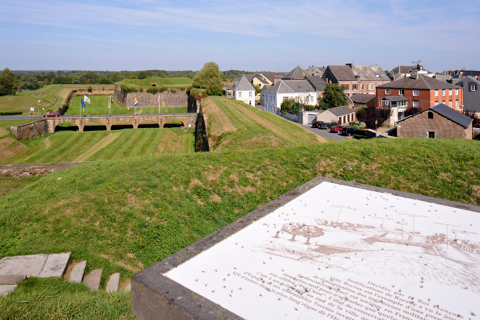 Pont de France over the moat around Rocroi; Ardennes, France.